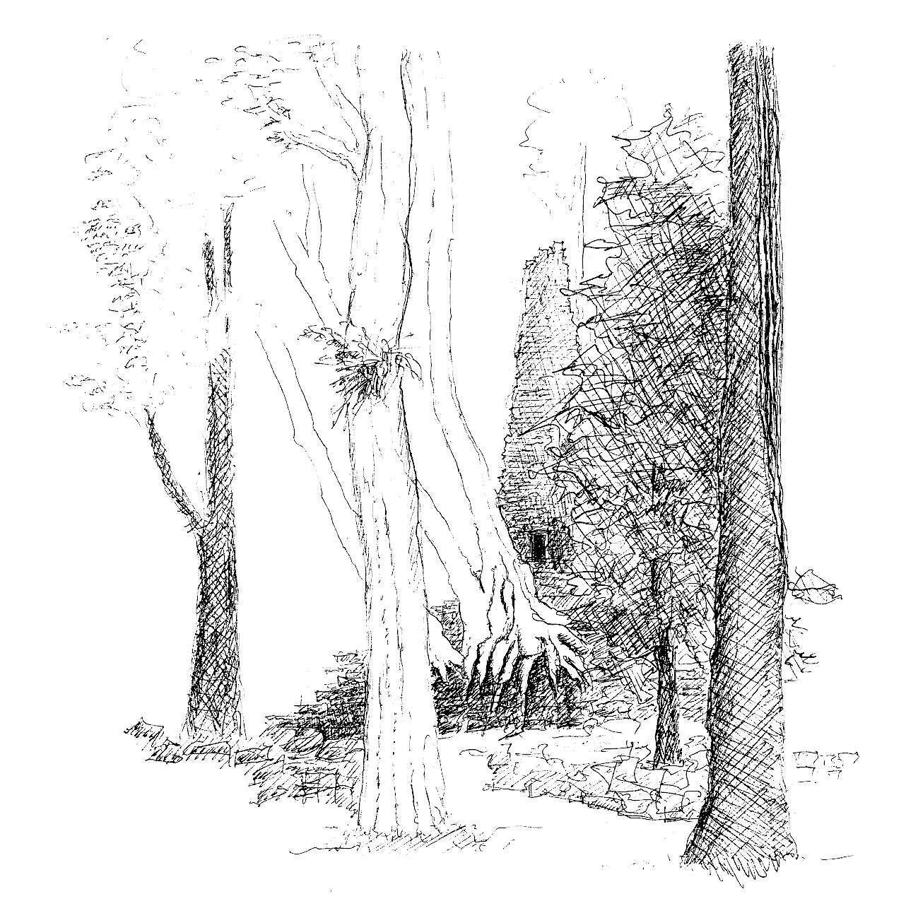 Preah Palilay, an atmospheric Buddhist temple in Angkor Thom: the South side of the central sanctuary